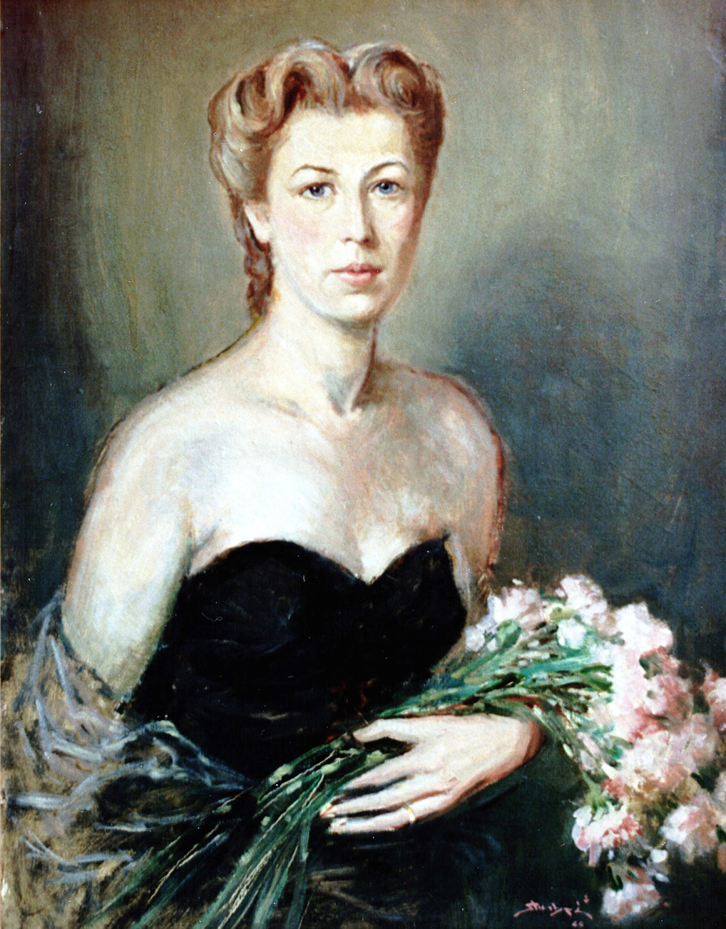 Portrait of Yvona Ricci